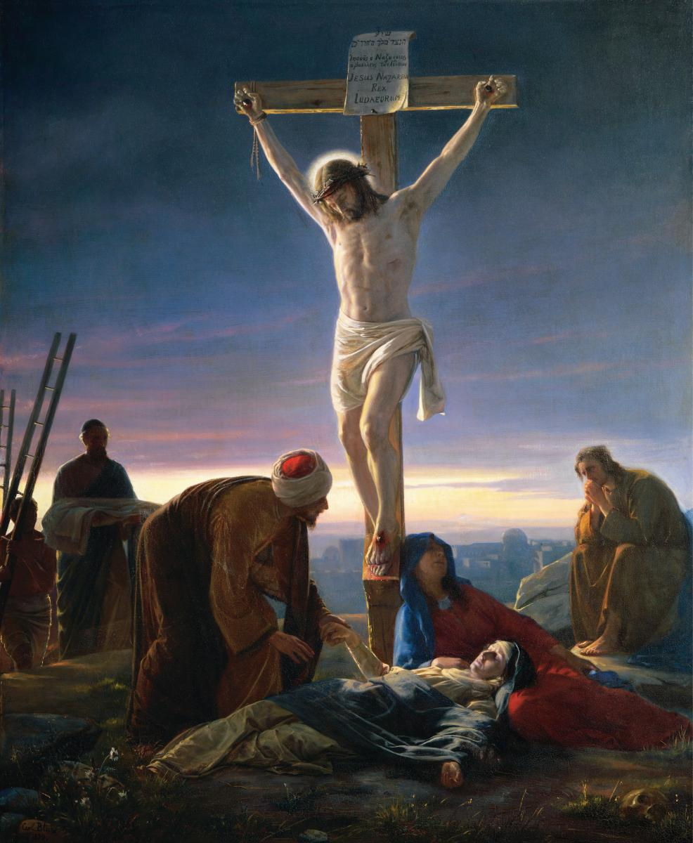 Faithful reproduction of the painting "Christ on the Cross", by Carl Heinrich Bloch.